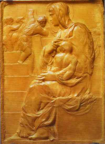 Michelangelo's Madonna of the stairs